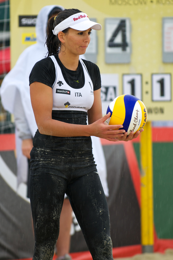 Grand Slam Moscow 2012